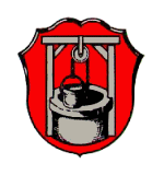 Coat of Arms of Waldbüttelbrunn